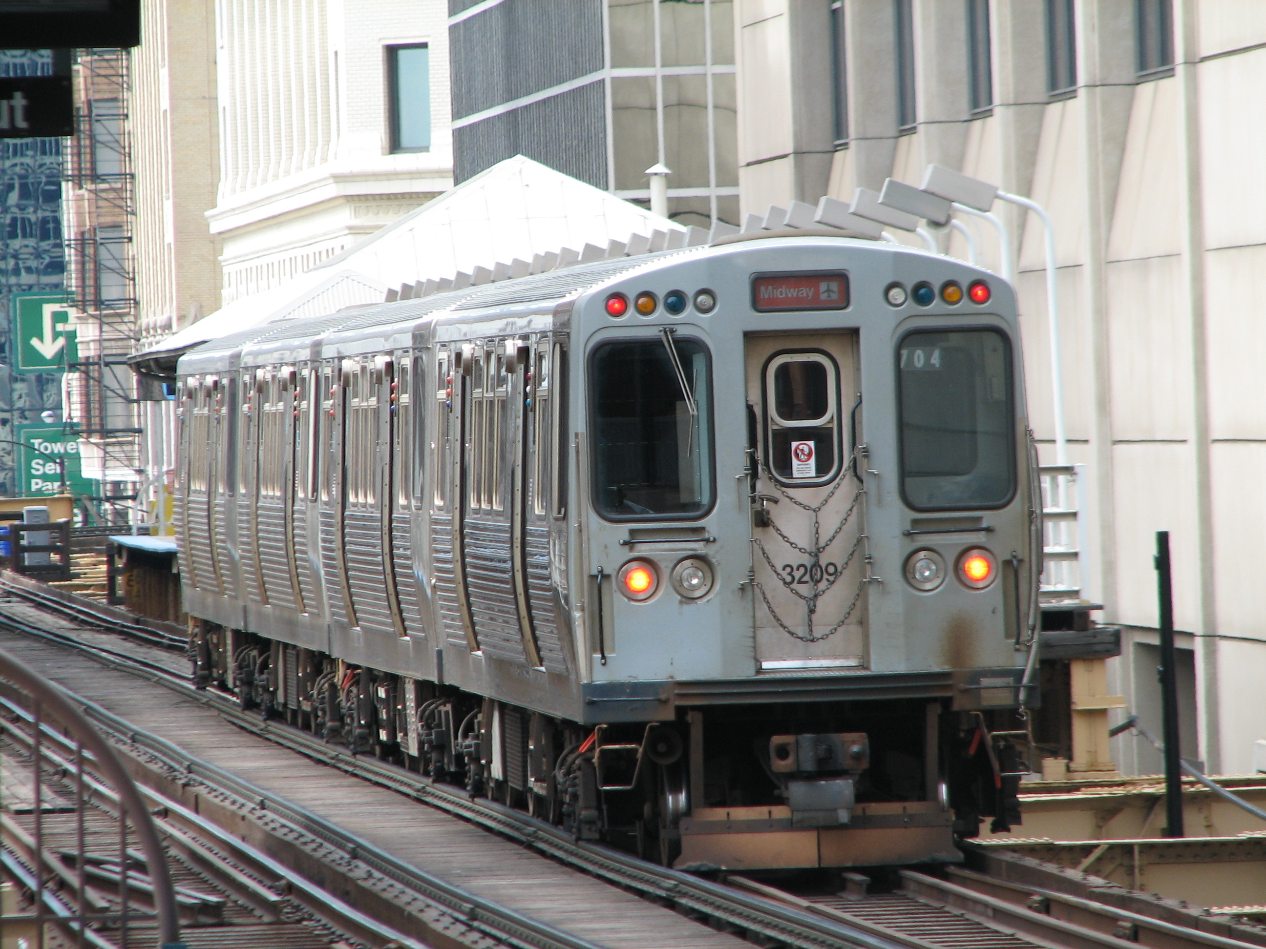 A train of the Chicago Elevated to Midway